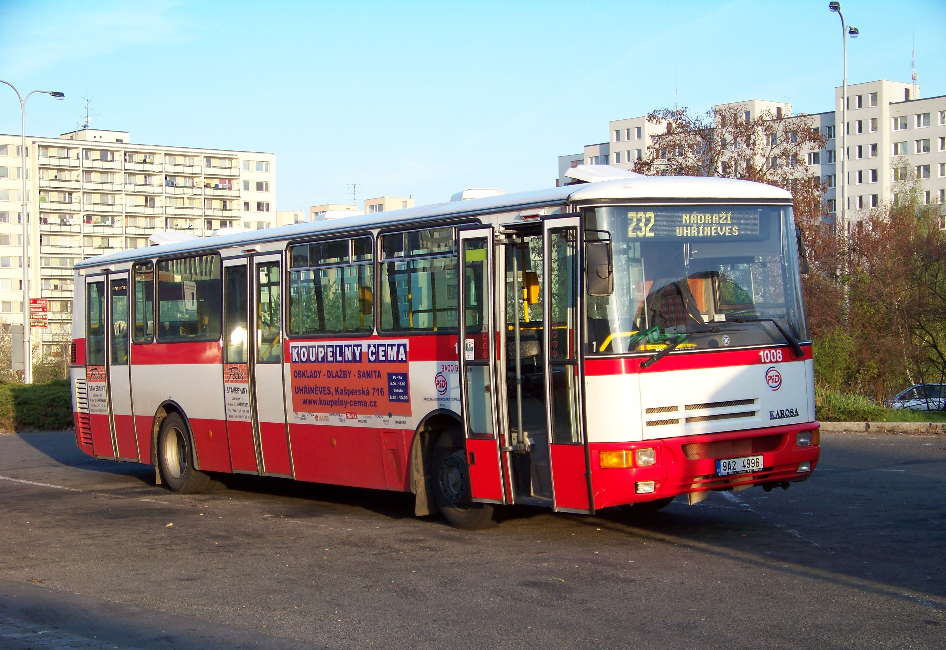 Háje, Prague, the Czech Republic. Bus Karosa B 932 of the BADO BUS company.